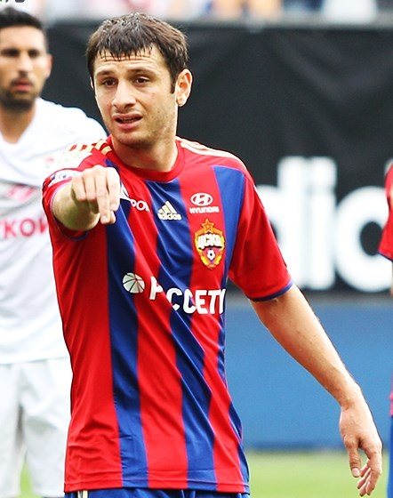 Alan Dzagoev